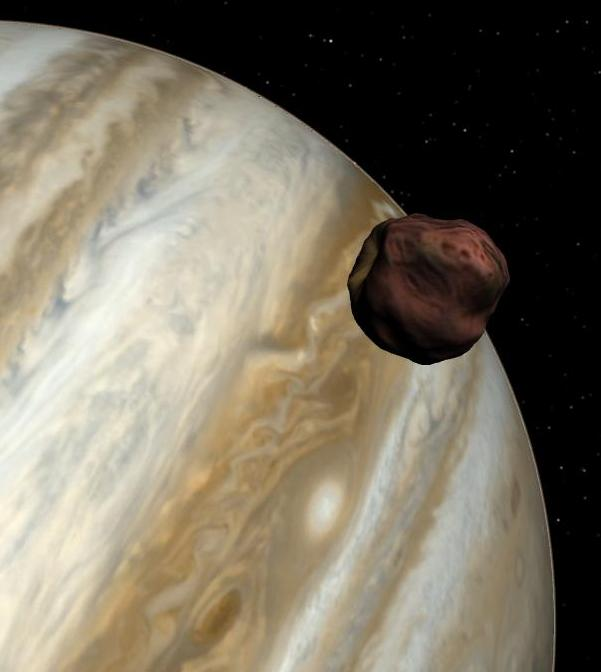 Simulation of Amalthea (moon) orbiting Jupiter. Created using Celestia software. Distance from Amalthea is 1,000 km, field of view is 26 degrees.